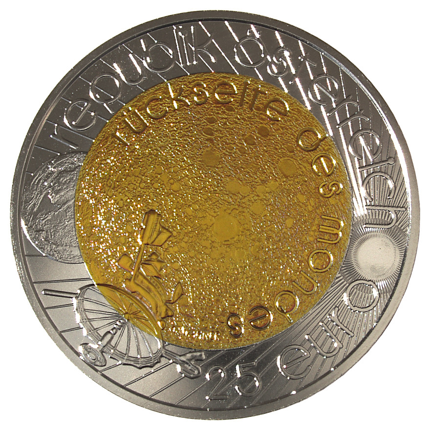 2009 year of astronomy